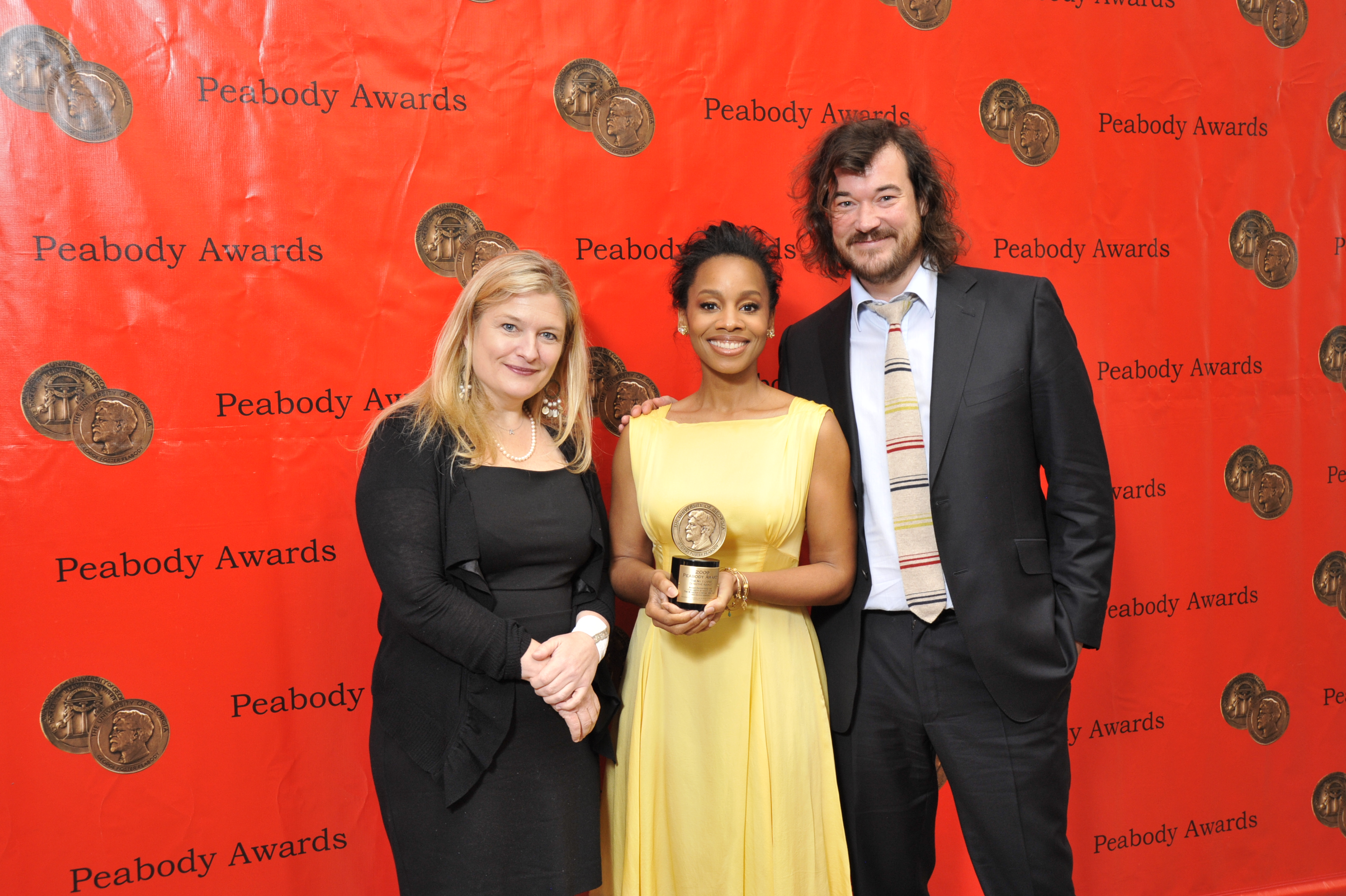 Amy J. Moore, Anika Noni Rose and Tim Bricknell 69th Annual Peabody Awards Luncheon Waldorf=Astoria Hotel New York, NY USA May 17, 2010